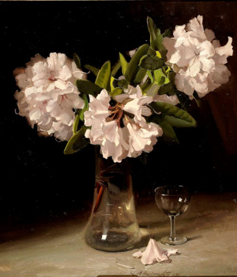 “Rhododendrons”, a 1930 painting by Australian artist Ernest Buckmaster. In the collection of the New England Regional Art Gallery, New South Wales, Australia.